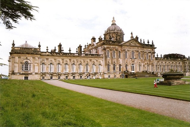 Castle Howard